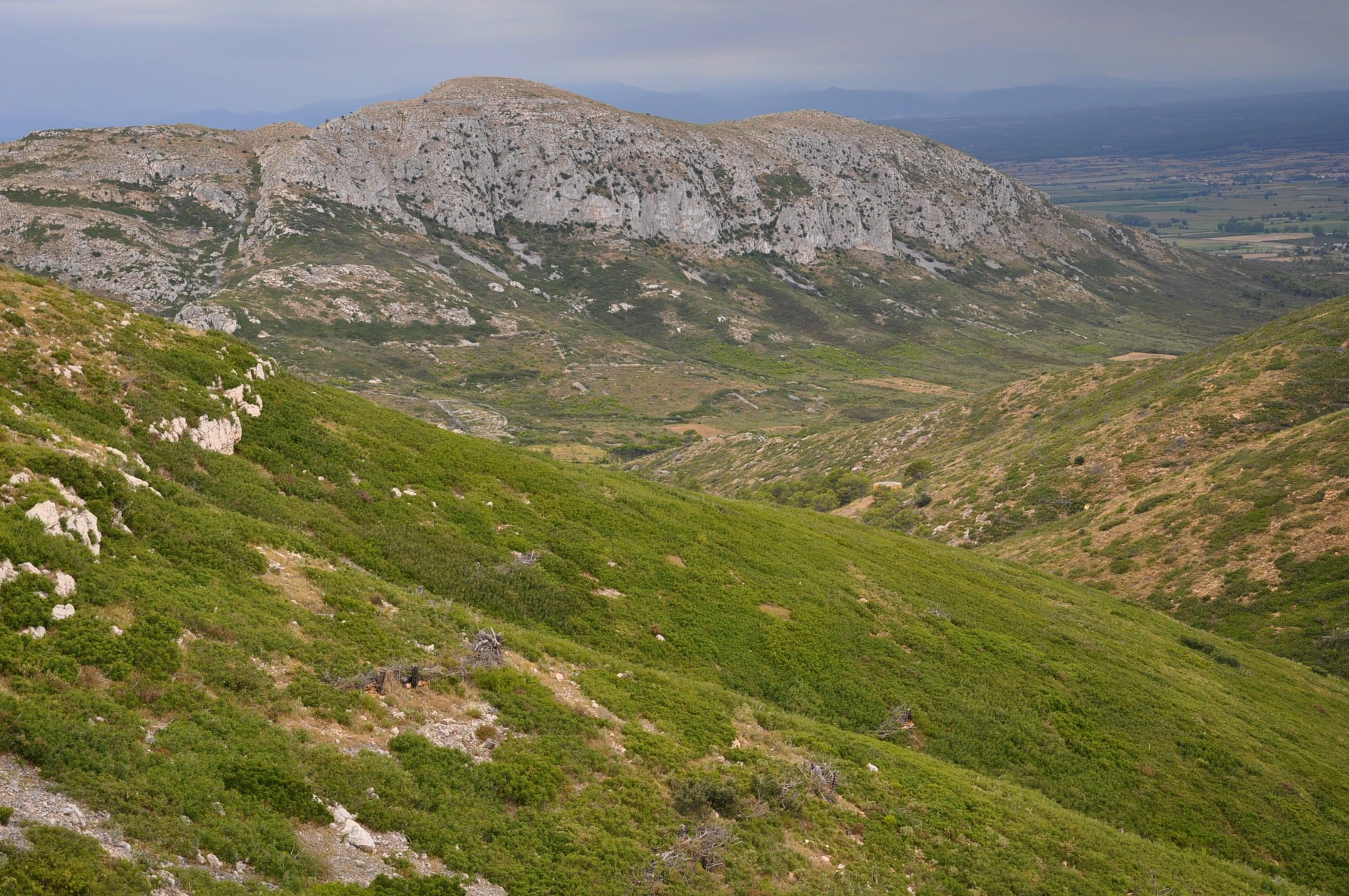 A landscape in the Montgrí Massif (Catalonia, Spain), with the Valley of Santa Caterina and the rocky Muntanya d'Ullà ('Mountain of Ullà'), seen from the north slope of Montplà. Direction of view is toward the West.